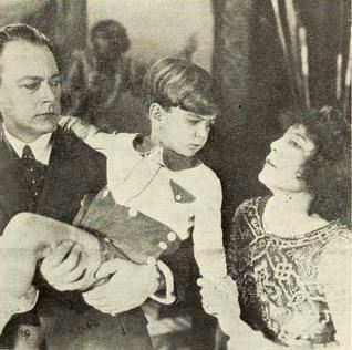 Still from the American film I Am Guilty (1921) with Louise Glaum, child actor Michael D. Moore (as Mickey Moore), and Mahlon Hamilton, on page 1 of the March 15, 1921 Film Daily.